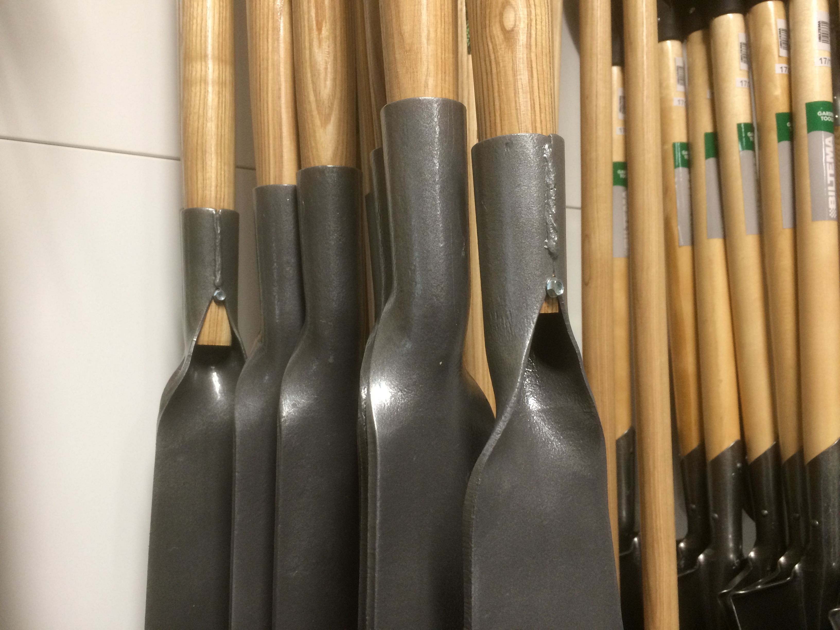 Tools for hacking ice, showing the typical socket attachment of the head to the shaft.